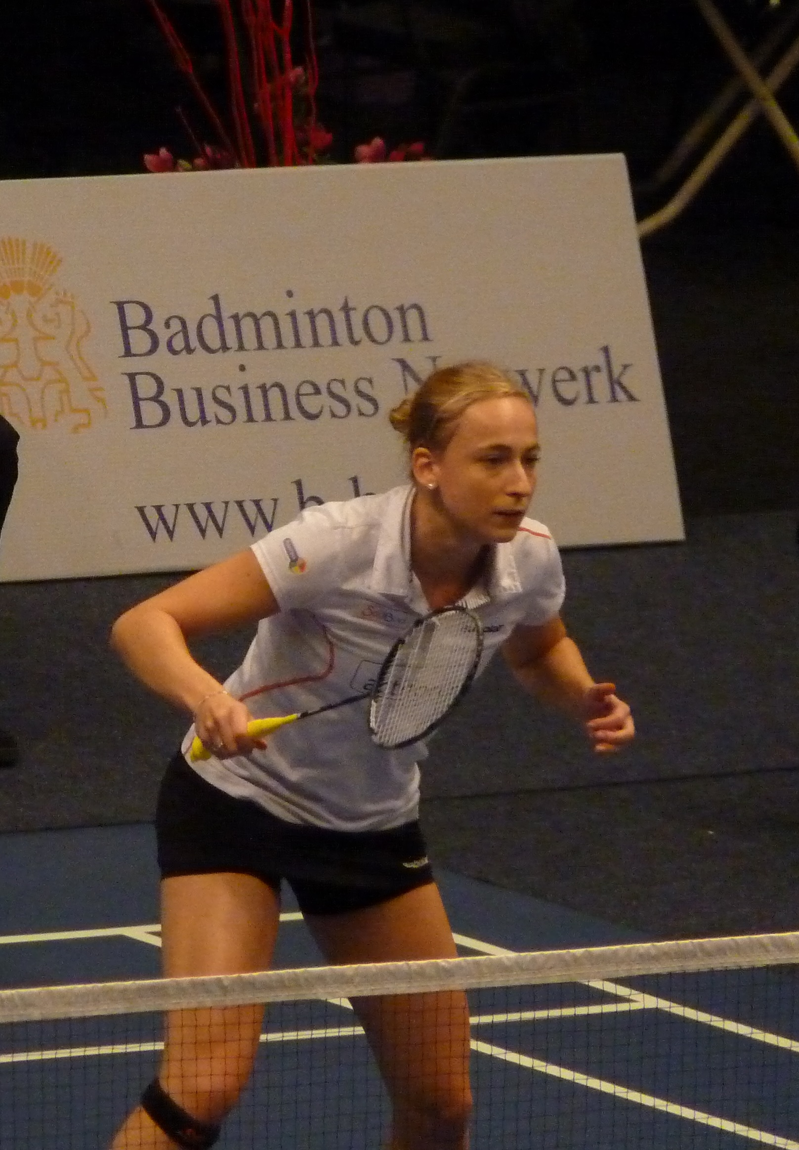 Selena Piek (the Netherlands)